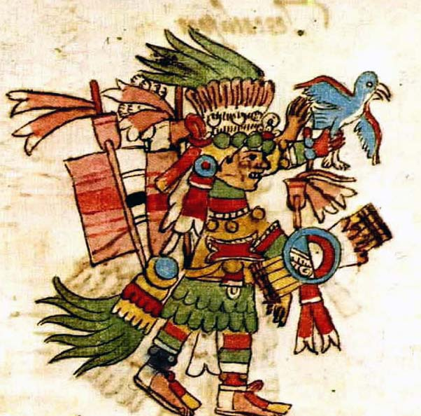 Xipe Totec — an Aztec god.